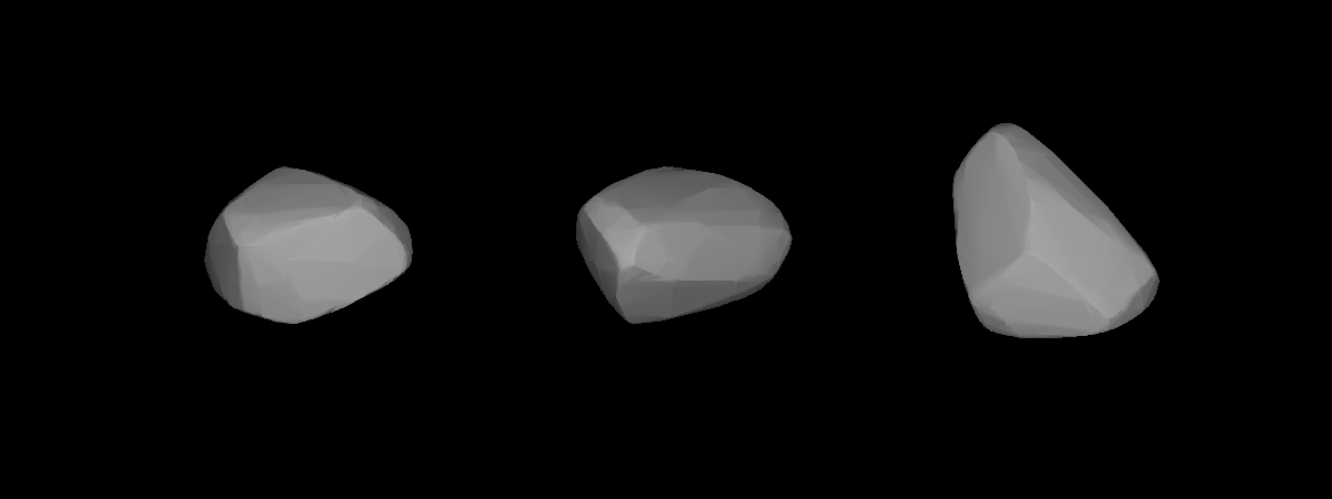 A three-dimensional model of 278 Paulina that was computed using light curve inversion techniques.